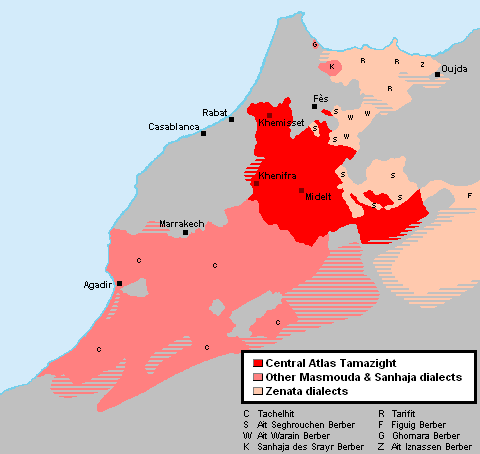 Language areas in Morocco - Central Atlas Tamazight